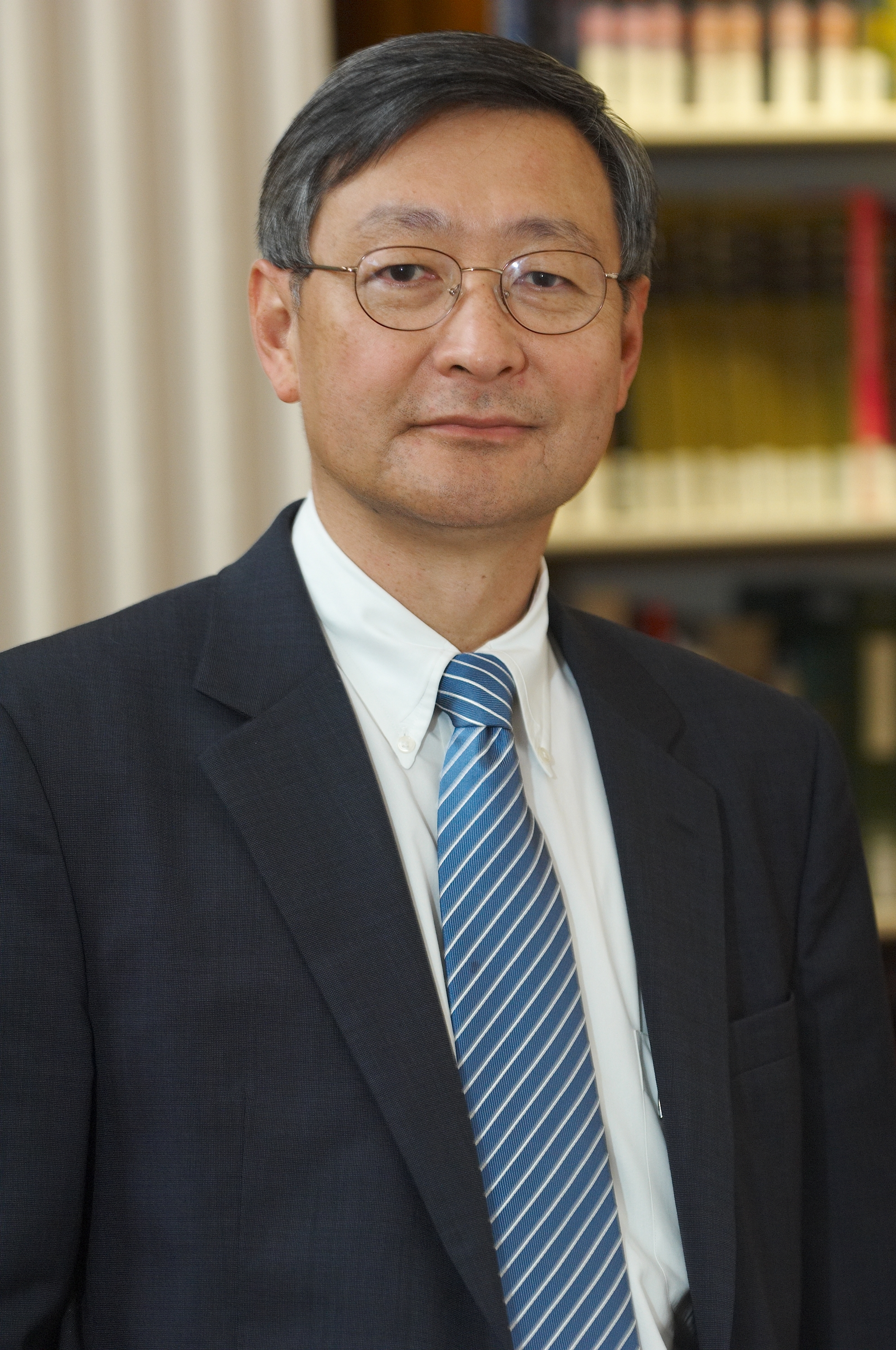 Photograph of Hai-Lung Dai, speaker at LISE 2007 (Leadership Initiative in Science Education, 7th Annual Conference), "21st Century Science Education: Preparing Teachers and Students for the Future", April 16-17 2007, organized by the Chemical Heritage Foundation.